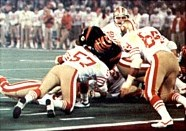 A football card from the 1986 Jeno's Pizza NFL football card stickers set of San Francisco 49ers linebacker Dan Bunz tackling Cincinnati Bengals running back Pete Johnson during the third quarter of Super Bowl XVI.. The card is numbered #27 in the set. The back of the card reads: THE 49ERS MAKE A STAND San Francisco linebacker Dan Bunz tackles Cincinnati's Pete Johnson on the 49ers's 1-yard line during the third-quarter goal-line stand that keyed San Francisco's 26-21 victory over the Bengals in Super Bowl XVI. After Johnson was stopped, the 49ers held the Bengals on three successive plays from the 1.